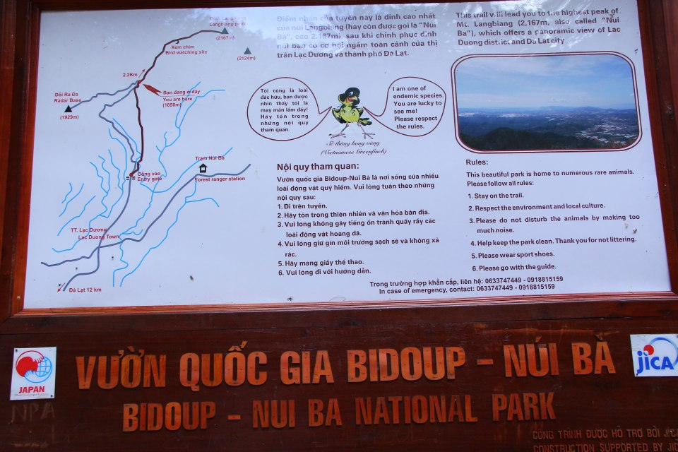 Langbiang hiking guide